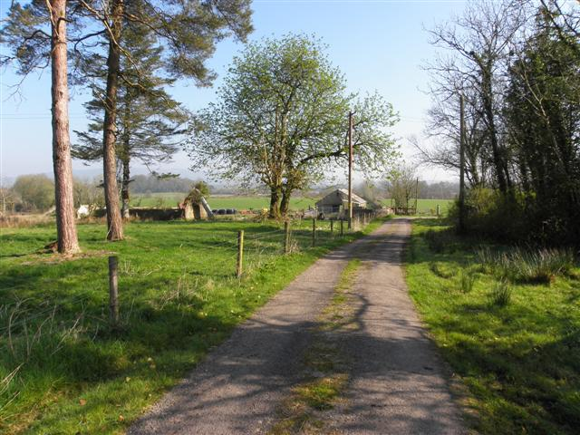 Gortaclogher townland, Templeport, County Cavan, Ireland, looking NNE